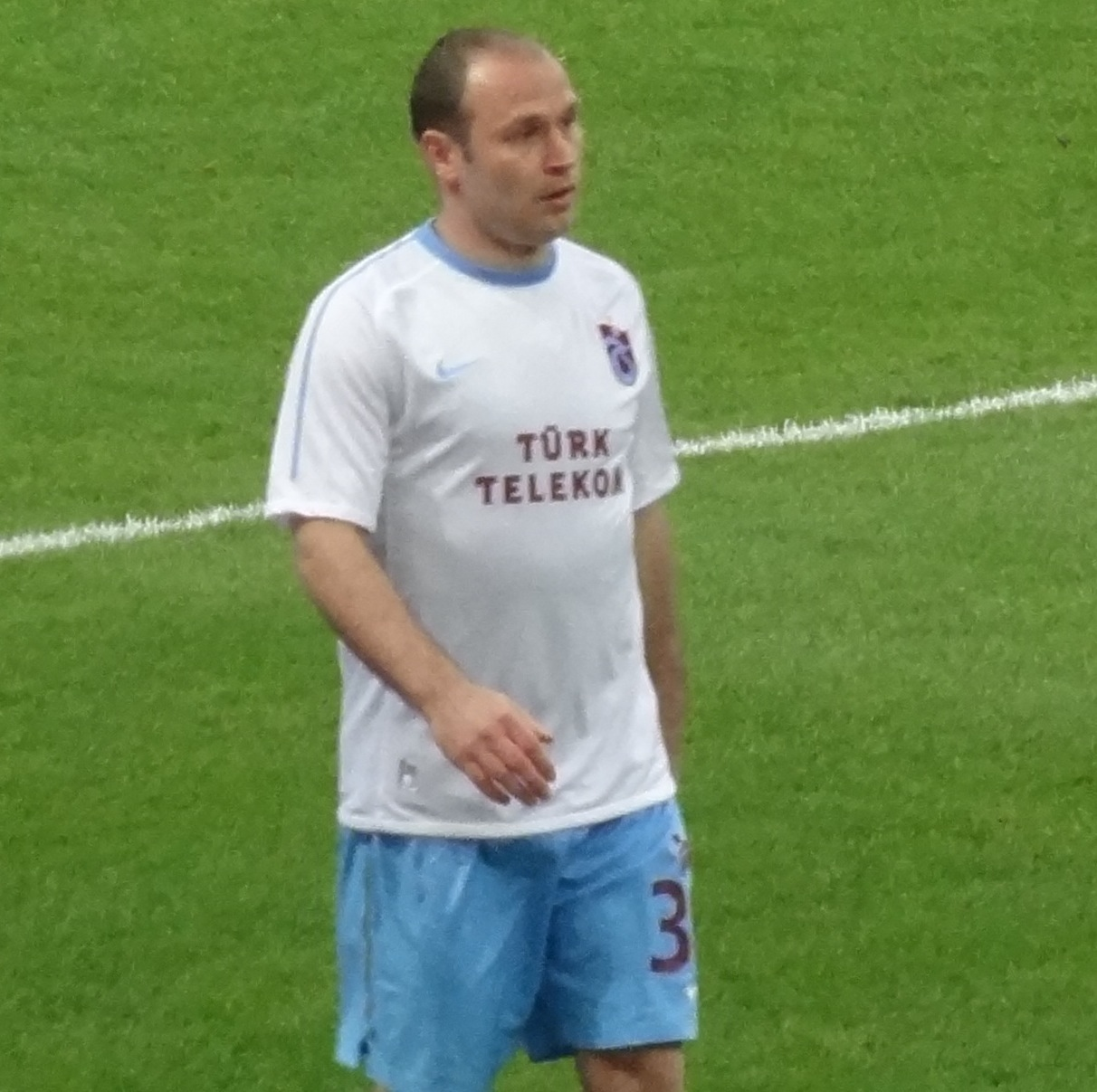 Serkan Balcı playing against Trabzonspor